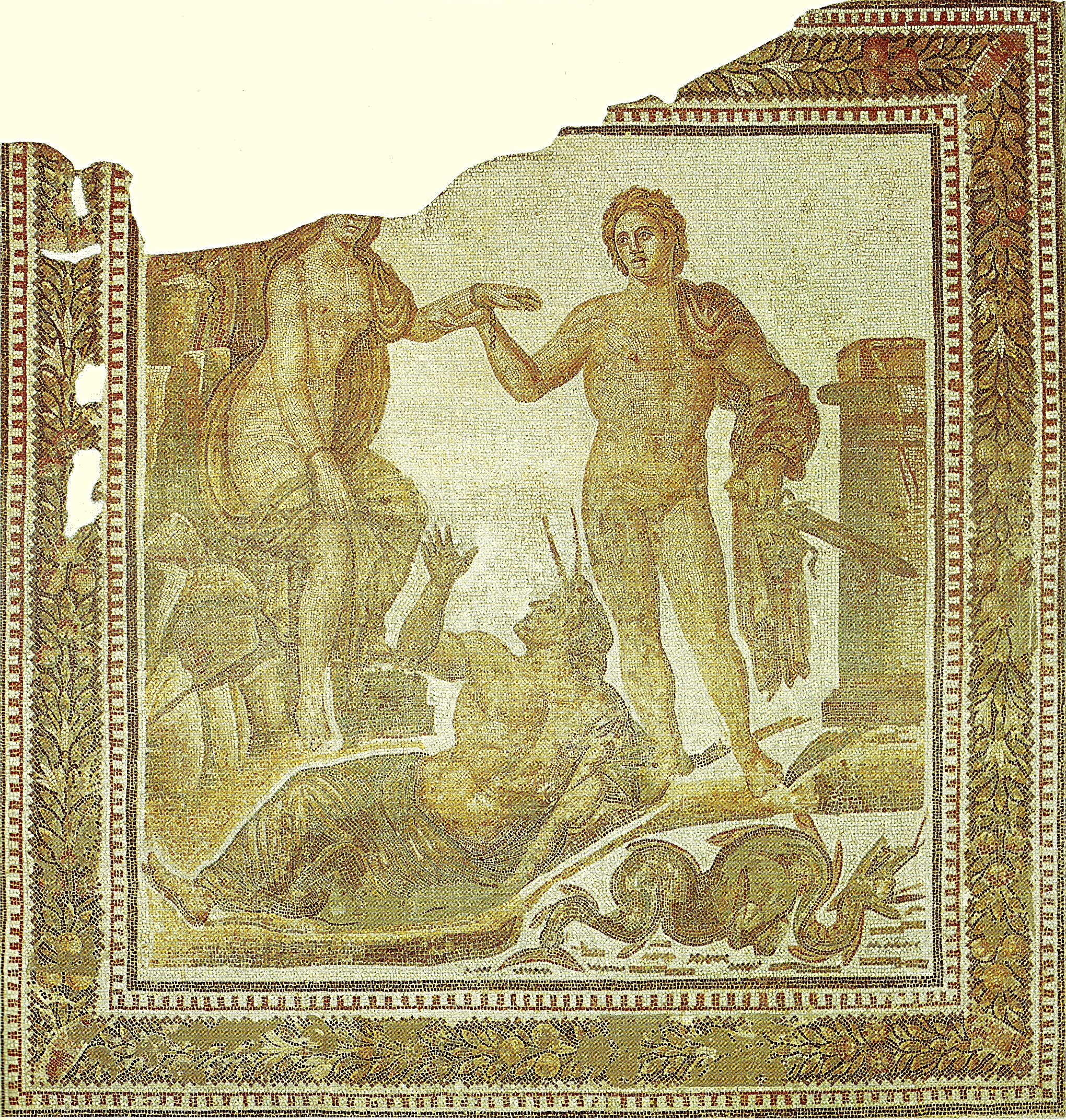 Roman mosaic of Perseus and Andromeda from Bulla Regia in Bardo museum of Tunisi